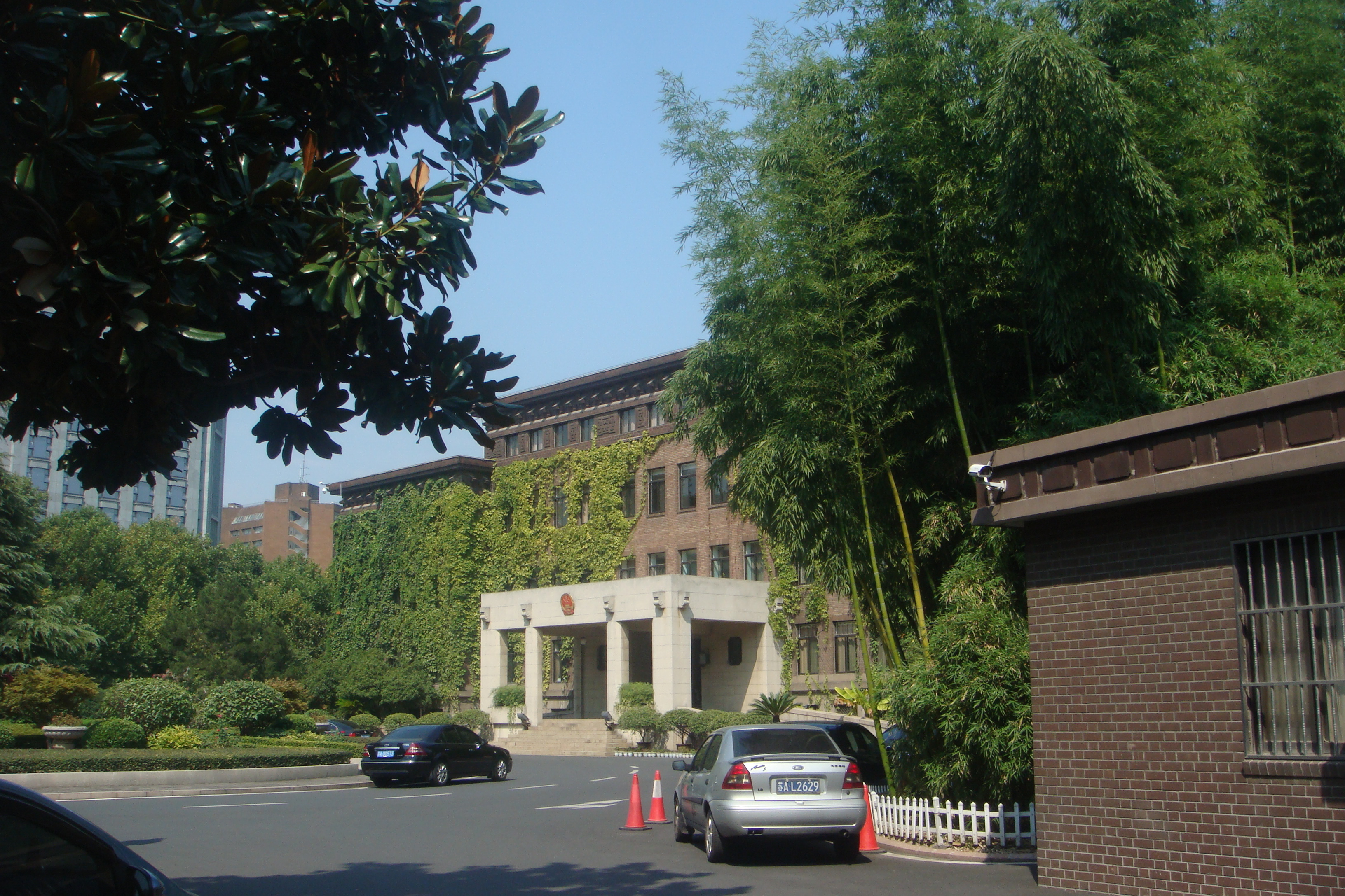 Formerly occupied by ROC Ministry of Foreign Affairs